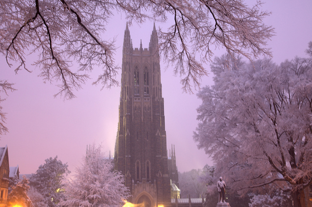 Duke Chapel at dawn on the campus of Duke University in Durham, NC.